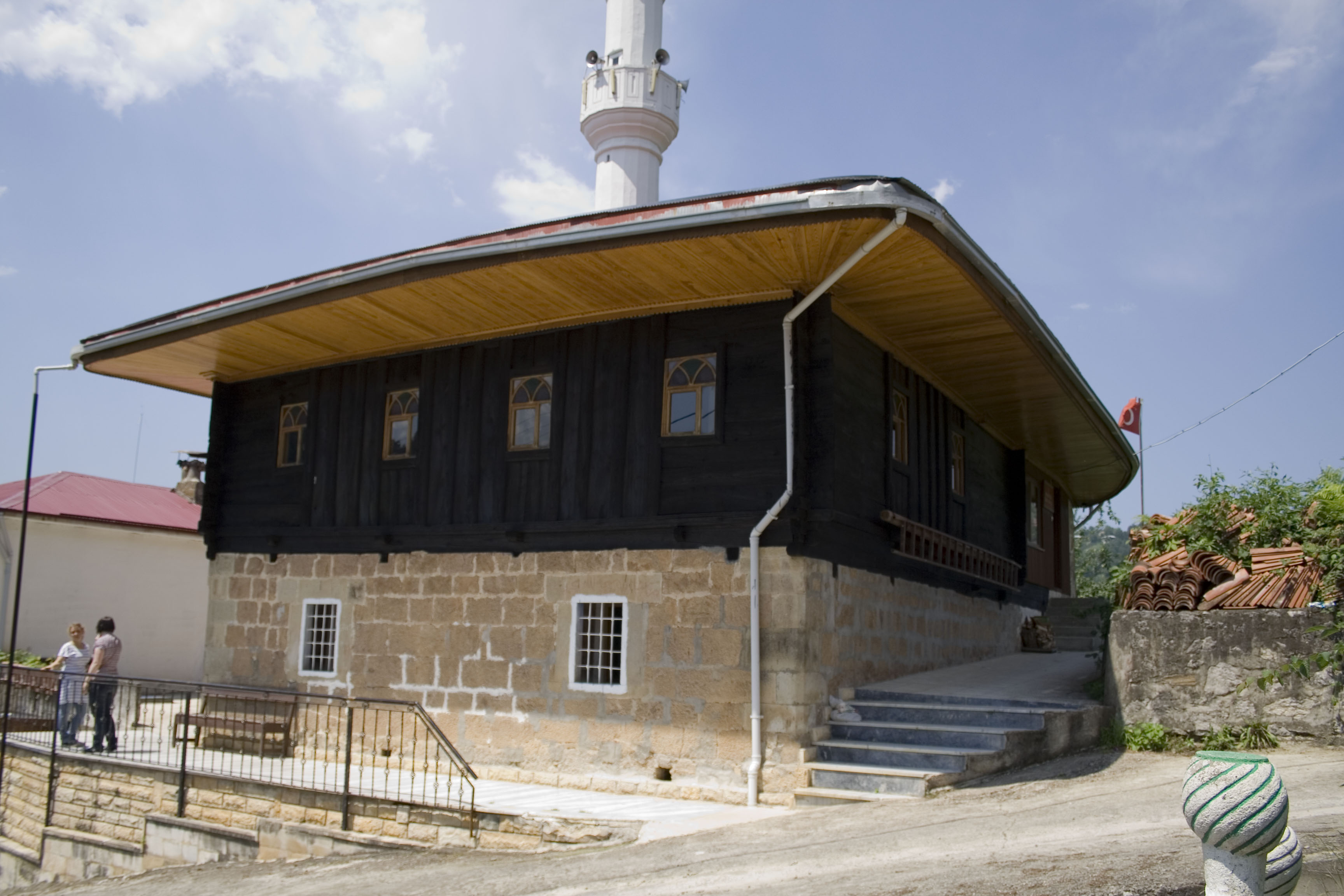 This is an image of the mosque in Taşören village in the Çaykara district of the province of Trabzon, Turkey after it was restored in 2009. Only a few weeks after this photo was taken the mosque unfortunatly burnt down partially.